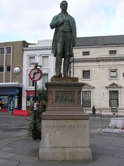 Joseph Pease. 1799-1872. Bronze statue, Peterhead granite plinth with four bas-relief panels representing some of his concerns; Elections, a colliery school, a colliery engine and docks, and black slaves. Erected on September 28th 1875. Removed for restoration, as part of the £6.2m Pedestrian Heart project, and on March 21st 2007, re-erected in its original position on the junction of High Row, Northgate and Prospect Place, facing the town clock.